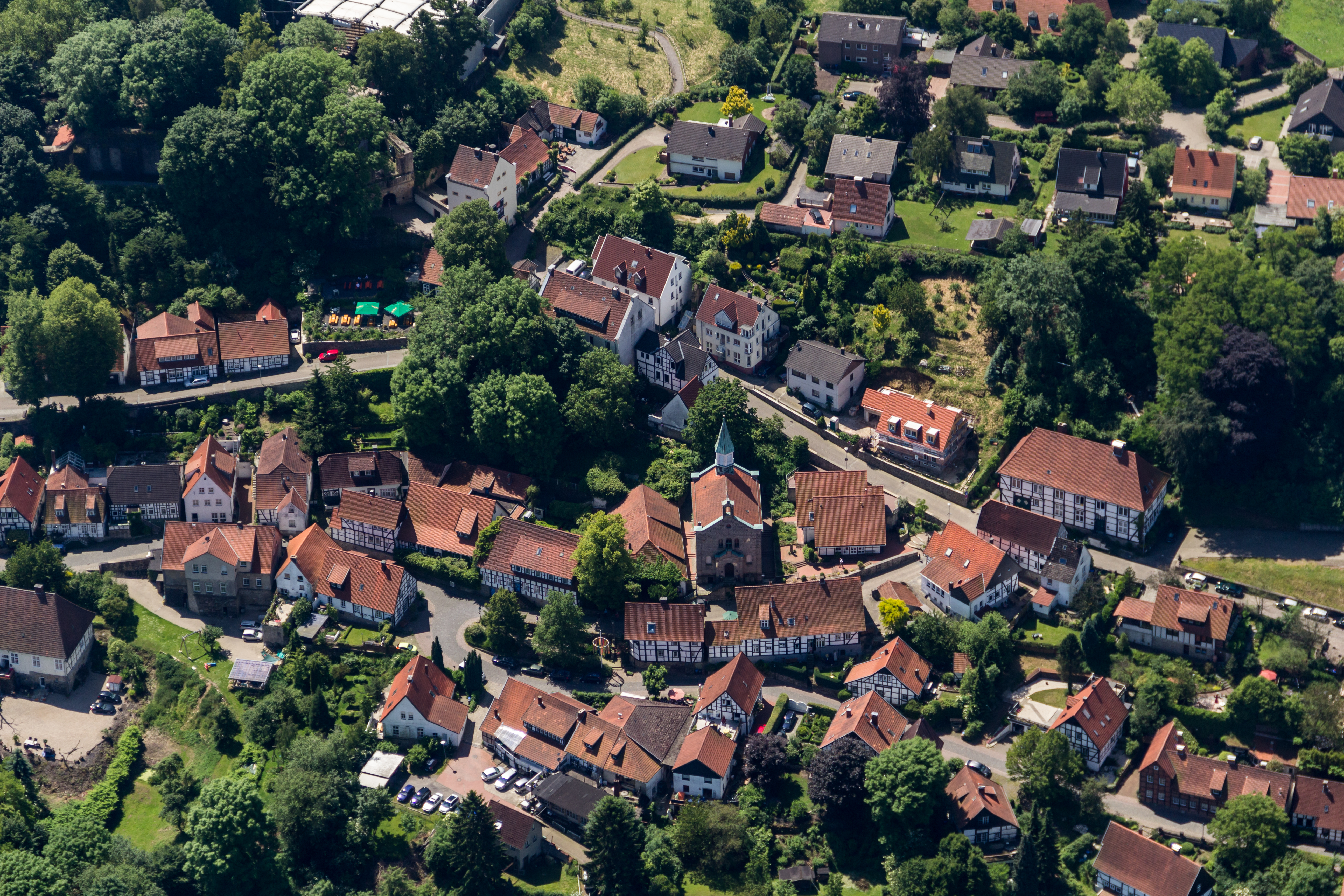 St. Michael Church, Tecklenburg, North Rhine-Westphalia, Germany